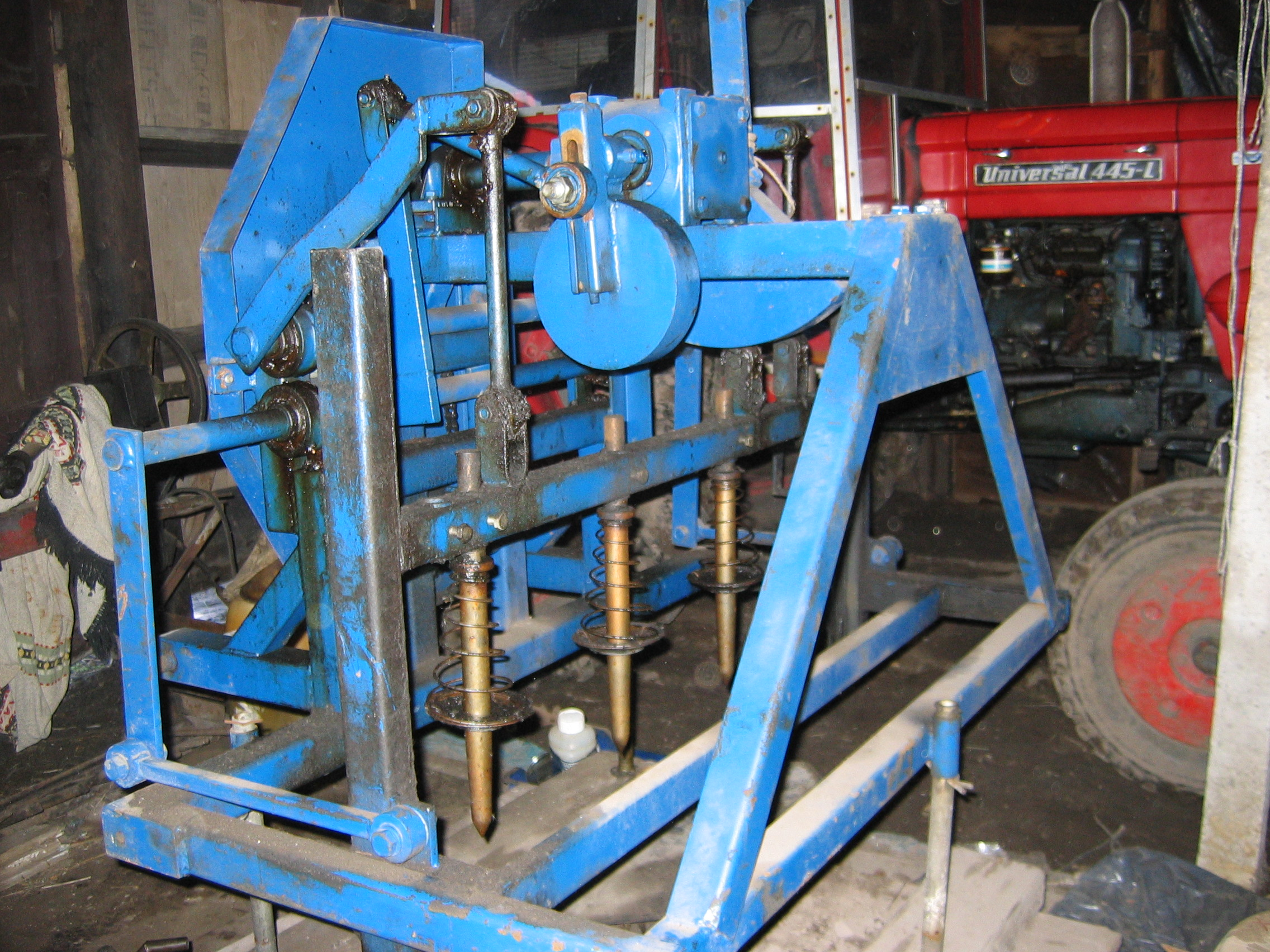 A leek planting machine